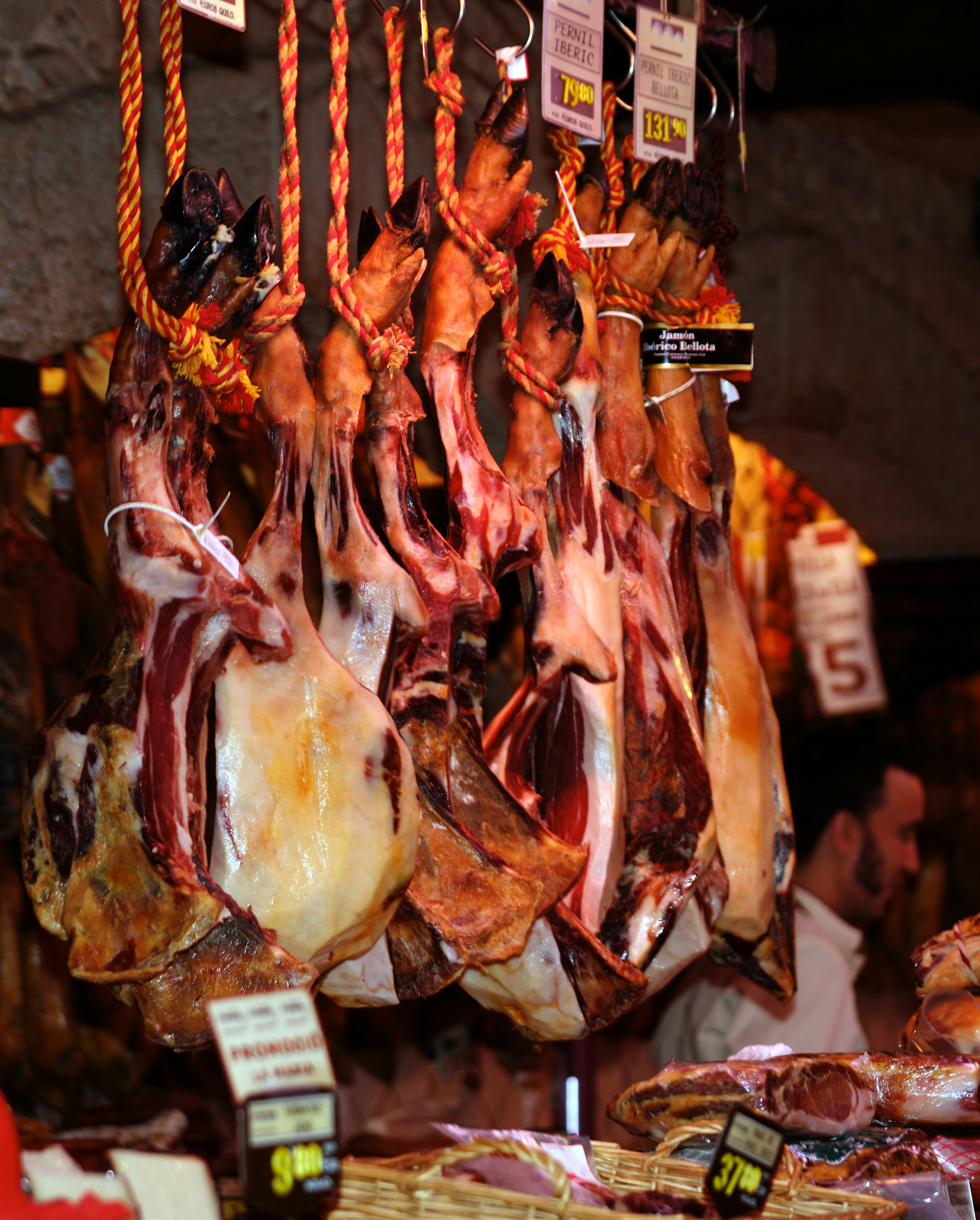 Jamon iberico at a market in Barcelona, Spain. Created by Michael Ströck (mstroeck) in May 2006. Released under the GFDL.